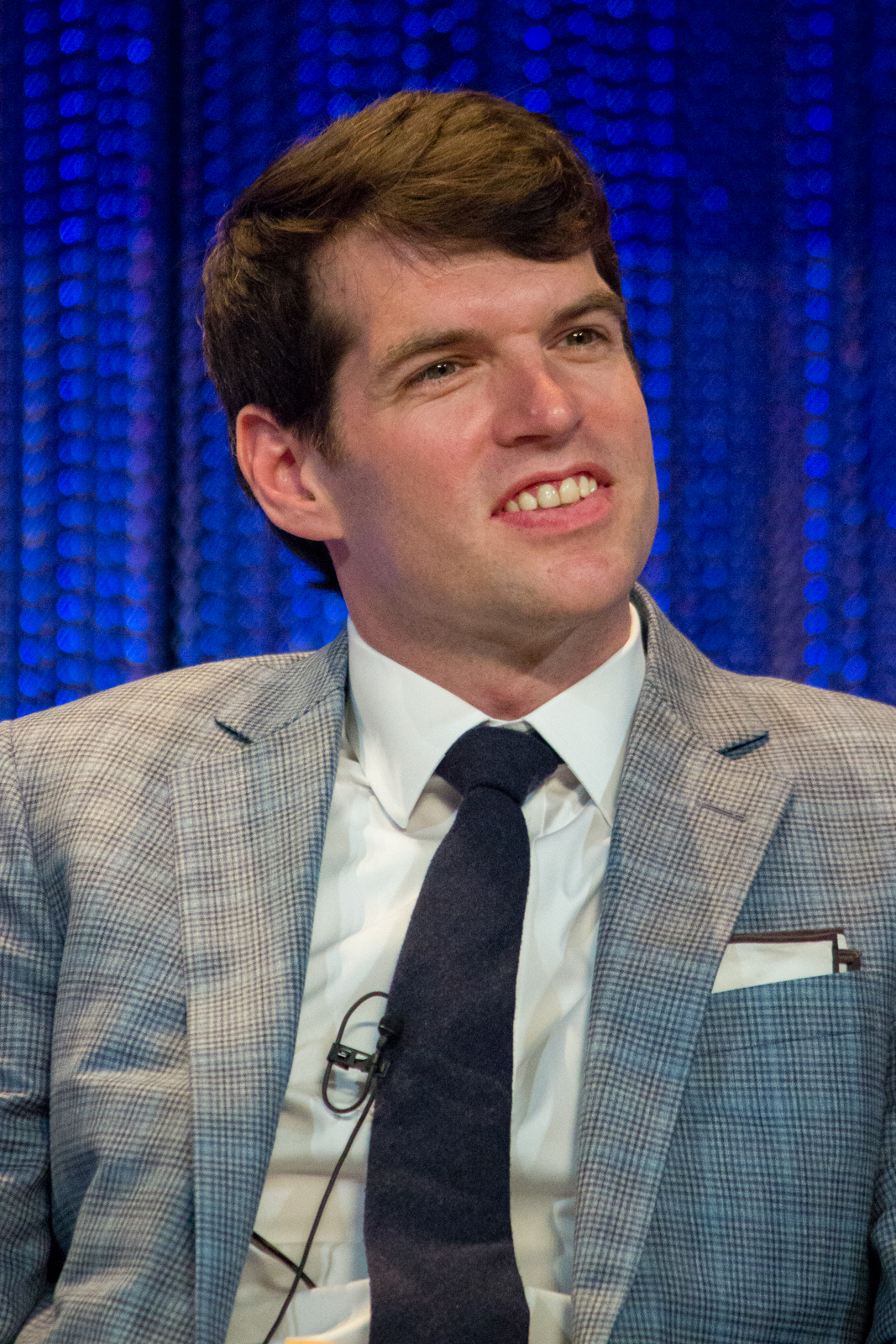 Simons at the New York PaleyFest 2014 for the TV show "Veep"